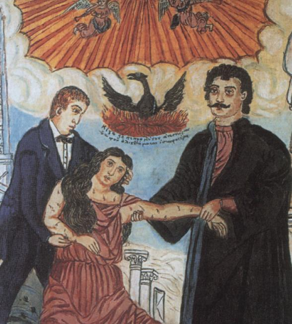 Adamantios Korais and Rigas Feraios, the main greek philosophers of Enlightment, helping Greece to stand up (detail).